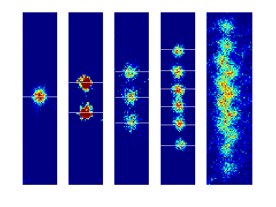 False-color images of 1, 2, 3, 6, and 12 magnesium ions loaded into NIST's new planar ion trap. Red indicates areas of highest fluorescence, or the centers of the ions. As more ions are loaded in the trap, they squeeze closer together, until the 12-ion string falls into a zig-zag formation. Credit: Signe Seidelin and John Chiaverini/NIST Disclaimer: Any mention of commercial products within NIST web pages is for information only; it does not imply recommendation or endorsement by NIST. Use of NIST Information: These World Wide Web pages are provided as a public service by the National Institute of Standards and Technology (NIST). With the exception of material marked as copyrighted, information presented on these pages is considered public information and may be distributed or copied. Use of appropriate byline/photo/image credits is requested.